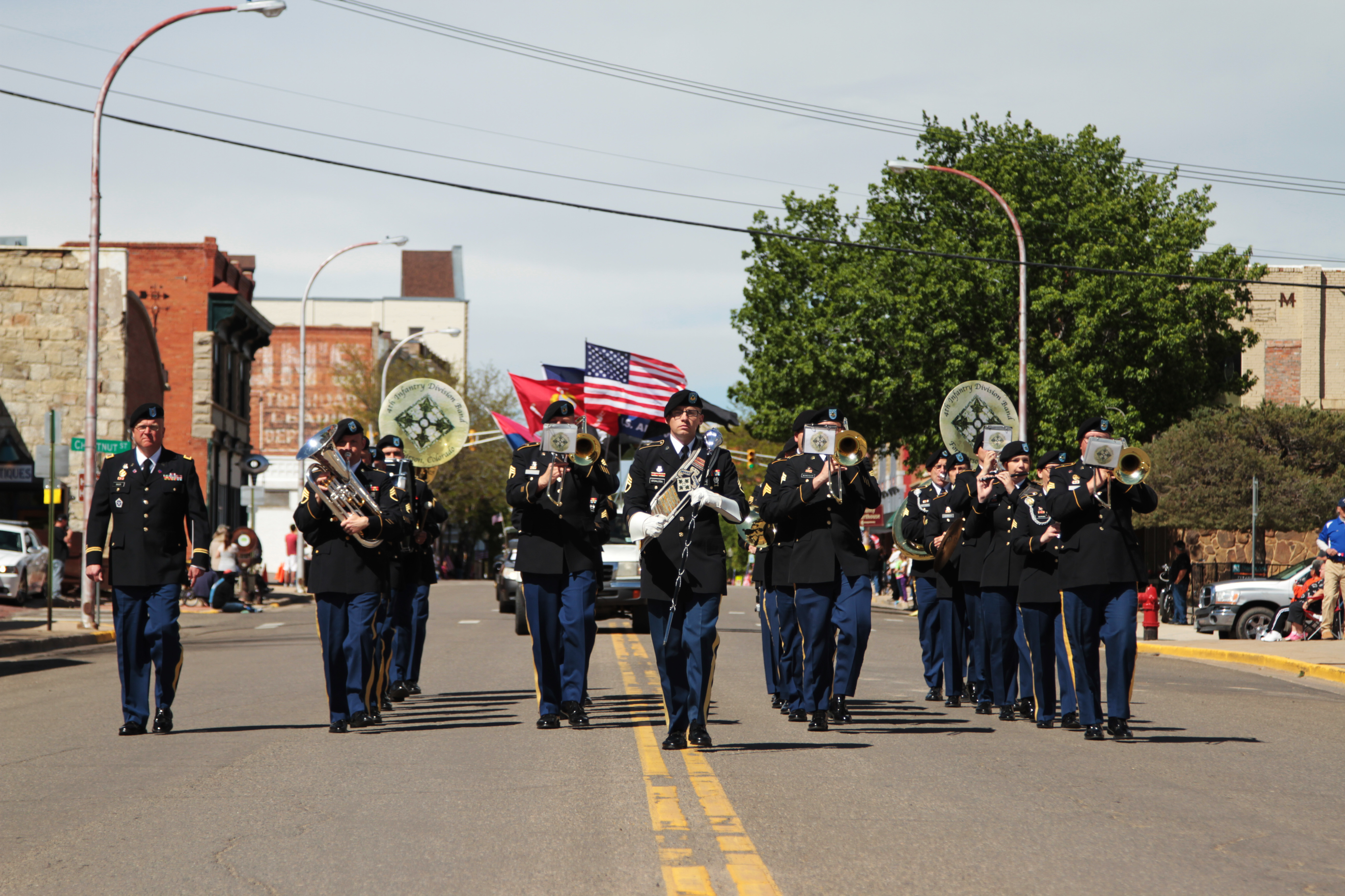 The 4th Infantry Division Band plays while marching in the fifth annual Trinidad Armed Forces Day parade, May 16, 2015. “Today we take time to thank our service men and women for preserving our freedom, we thank them for their service, their sacrifice and their commitment,” said Col. Joel D. Hamilton, Fort Carson garrison commander, “while remembering that they need us to stand with them and their families.”